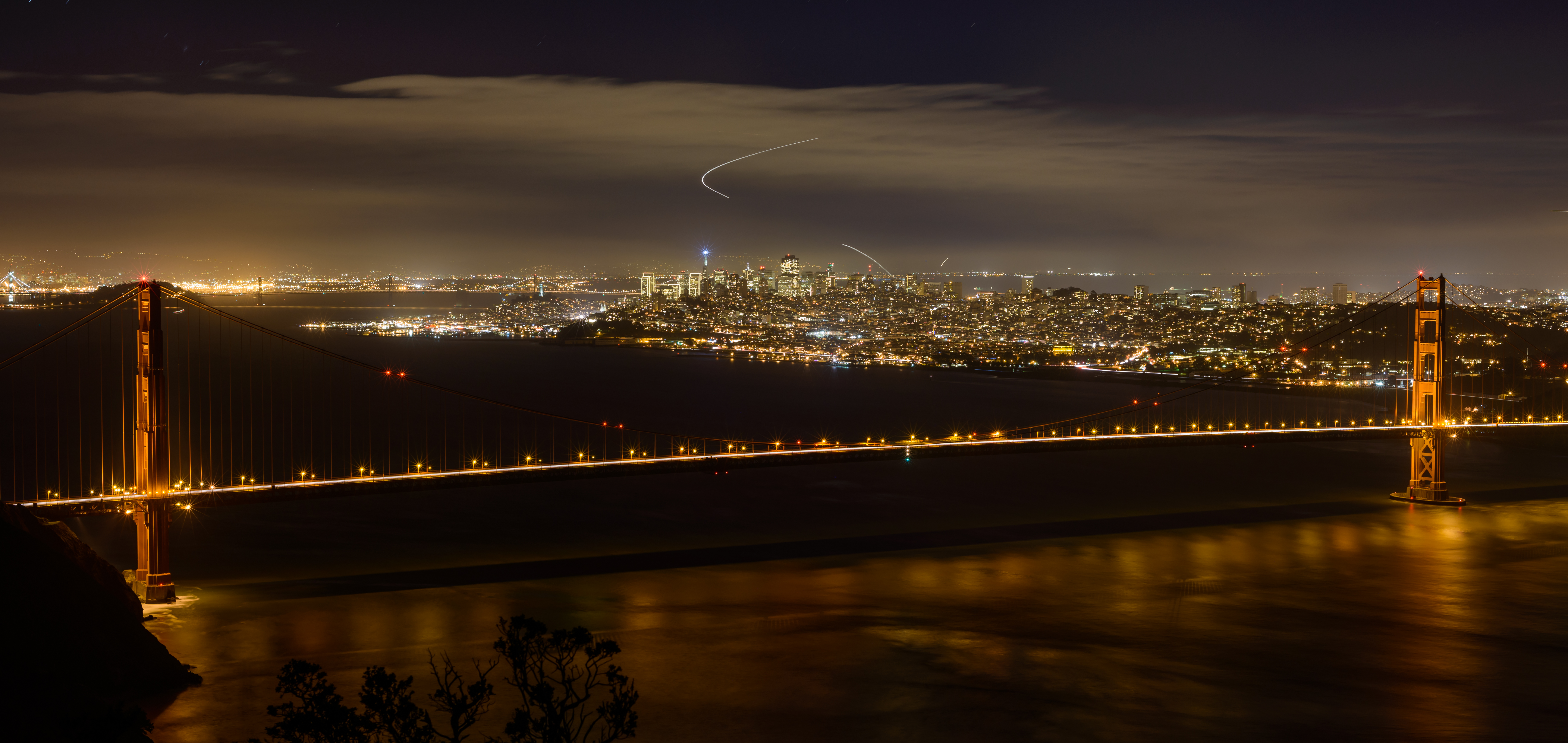 Golden Gate Bridge at night, with San Francisco in the background